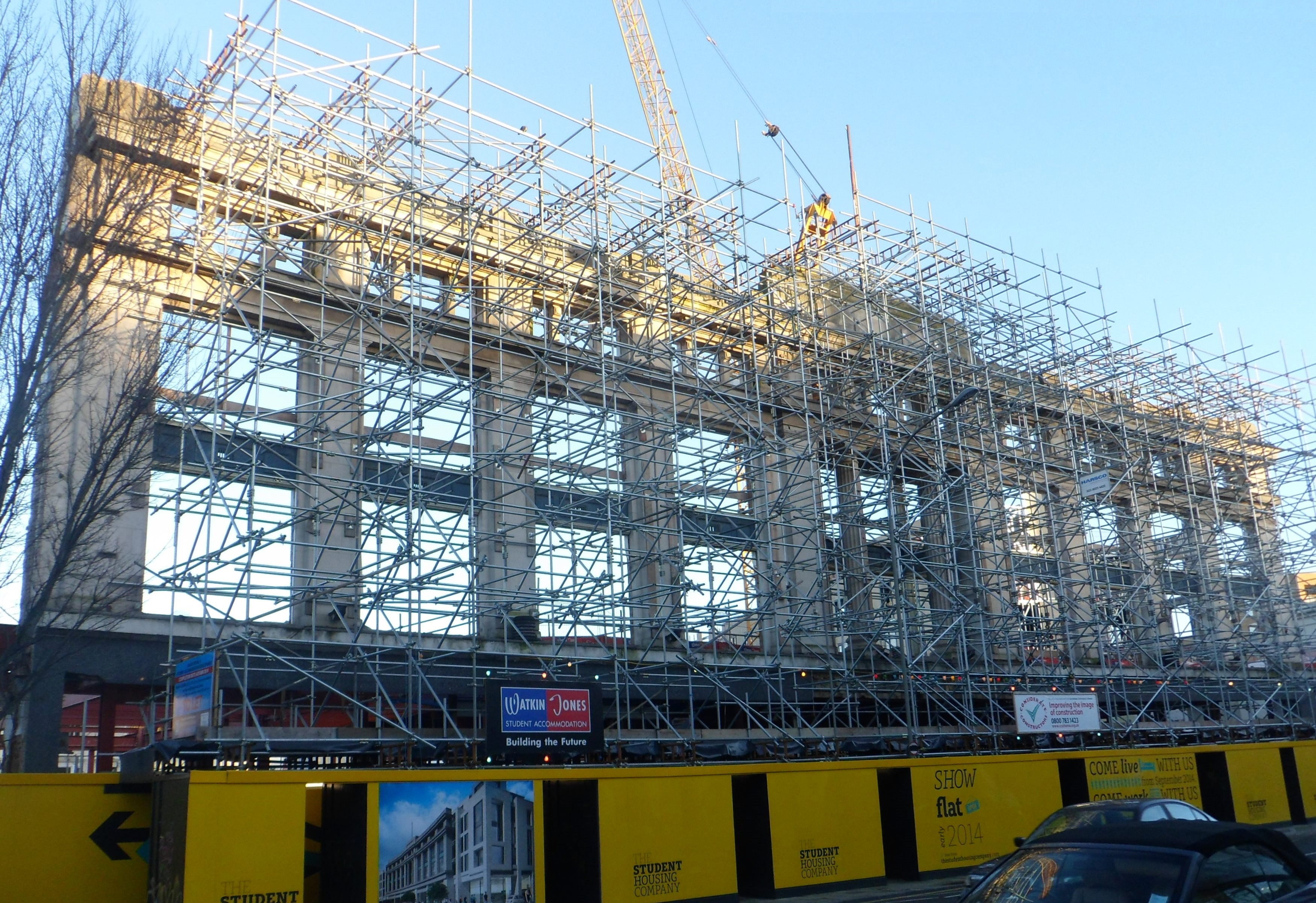 A view of the façade of the former Brighton Co-operative store, London Road, Brighton, City of Brighton and Hove, England, undergoing partial demolition. The façade is being retained but the rest of the building has been demolished and is being replaced with student flats.